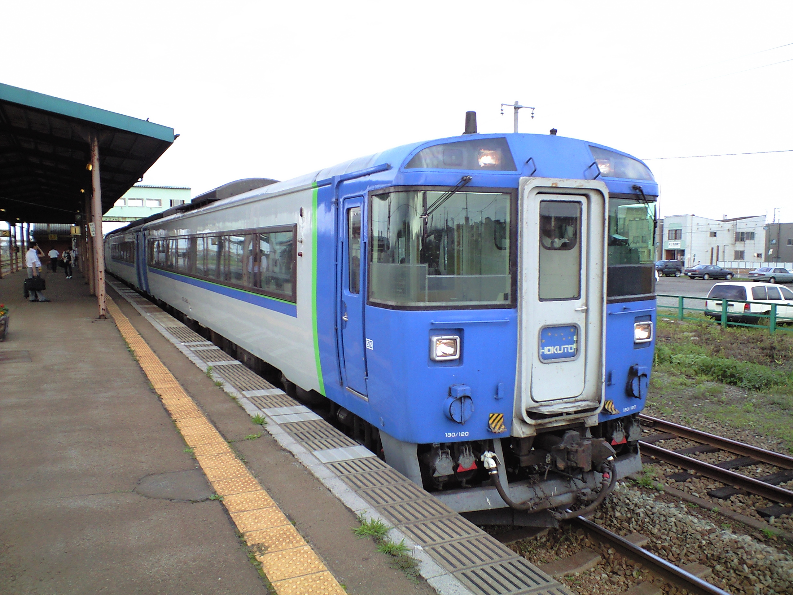 Limited express train Hokuto for Hakodate, at Oshamambe Station